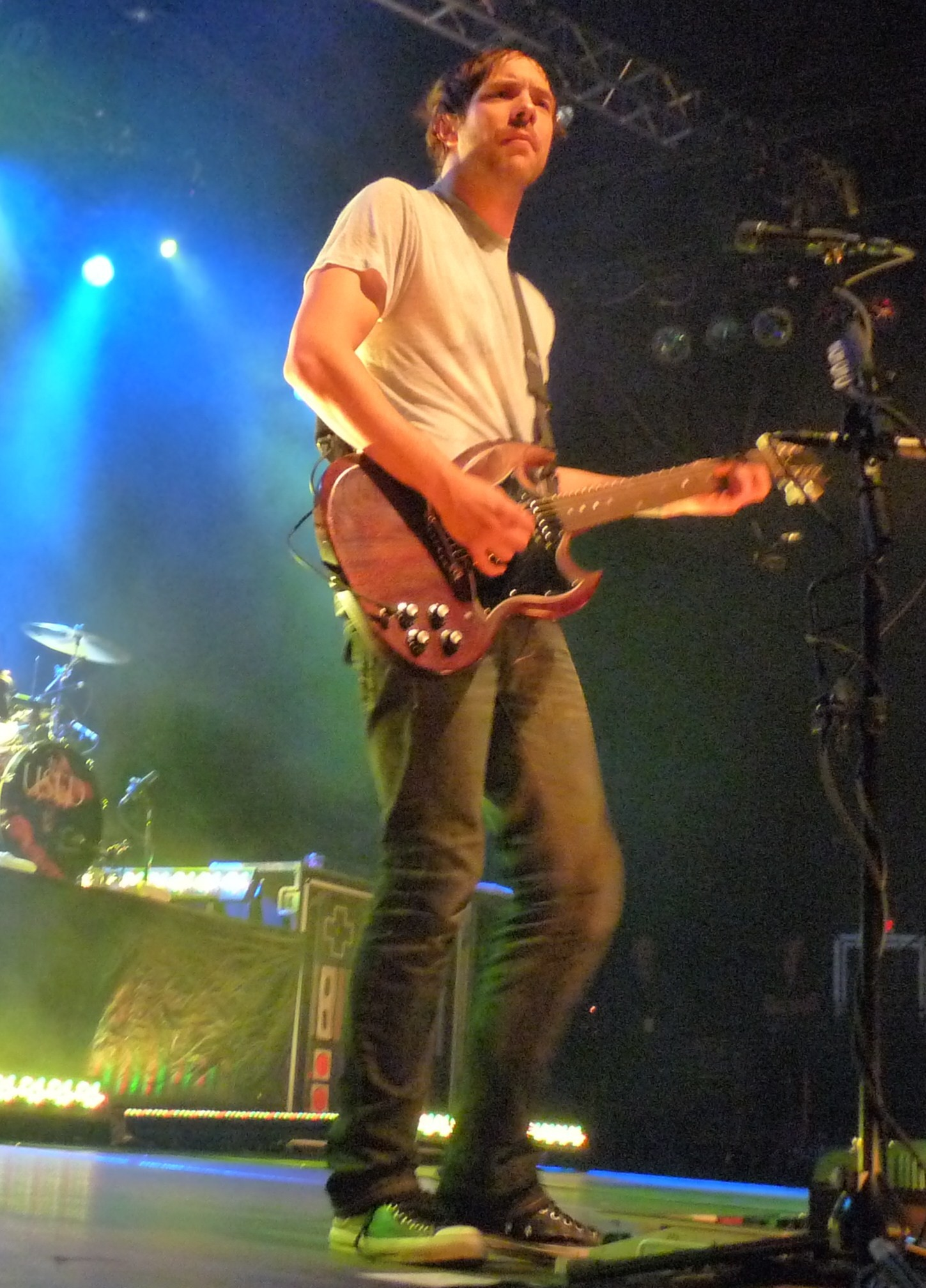 Quinn Allman at The Used's show in Denver, 10/11/09